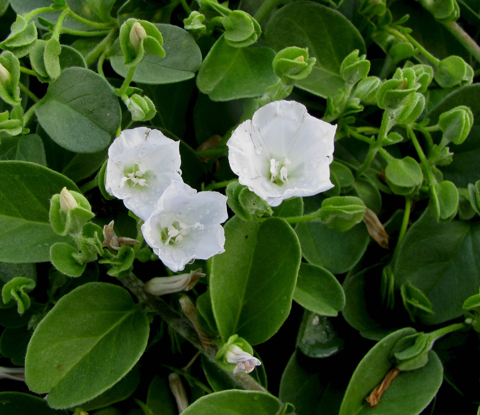 [syn. Jacquemontia ovalifolia subsp. sandwicensis] Pāʻūohiʻiaka or Oval-leaf clustervine Convolvulaceae Endemic to the Hawaiian Islands Oʻahu (Cultivated) White-flowered form Dried leaves and stems were made into a tea or mixed with niu (coconut) and eaten by early Hawaiians. Medicinally, pāʻūohiʻiaka was used to treat babies with thrush (ʻea), as a laxative for lepo paʻa (constipation), and for babies with general weakness (pāʻaoʻao). It also was used to help babies and adults with ʻeha makaʻu (frightening pains or aches). The plant was mixed with kalo (taro) leaves and salt for cuts. NPH00006